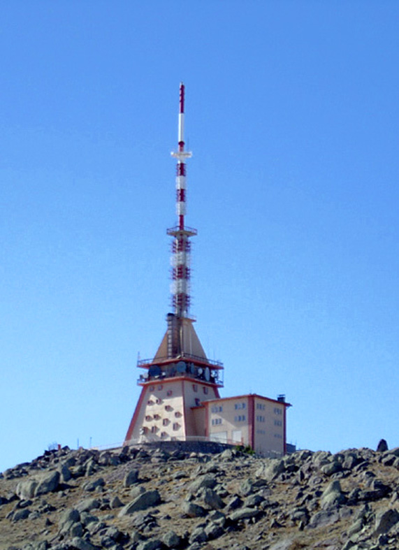 A typical TV station in Karadağ, Karaman, Turkey